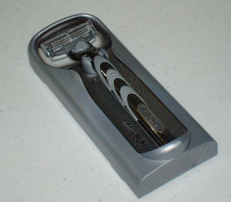 Gillette Mach3 Turbo Razor